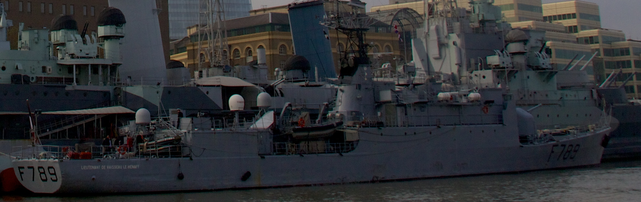 HMS Belfast and F789 Lieutenant de Vaisseau le Henaff on the Thames.